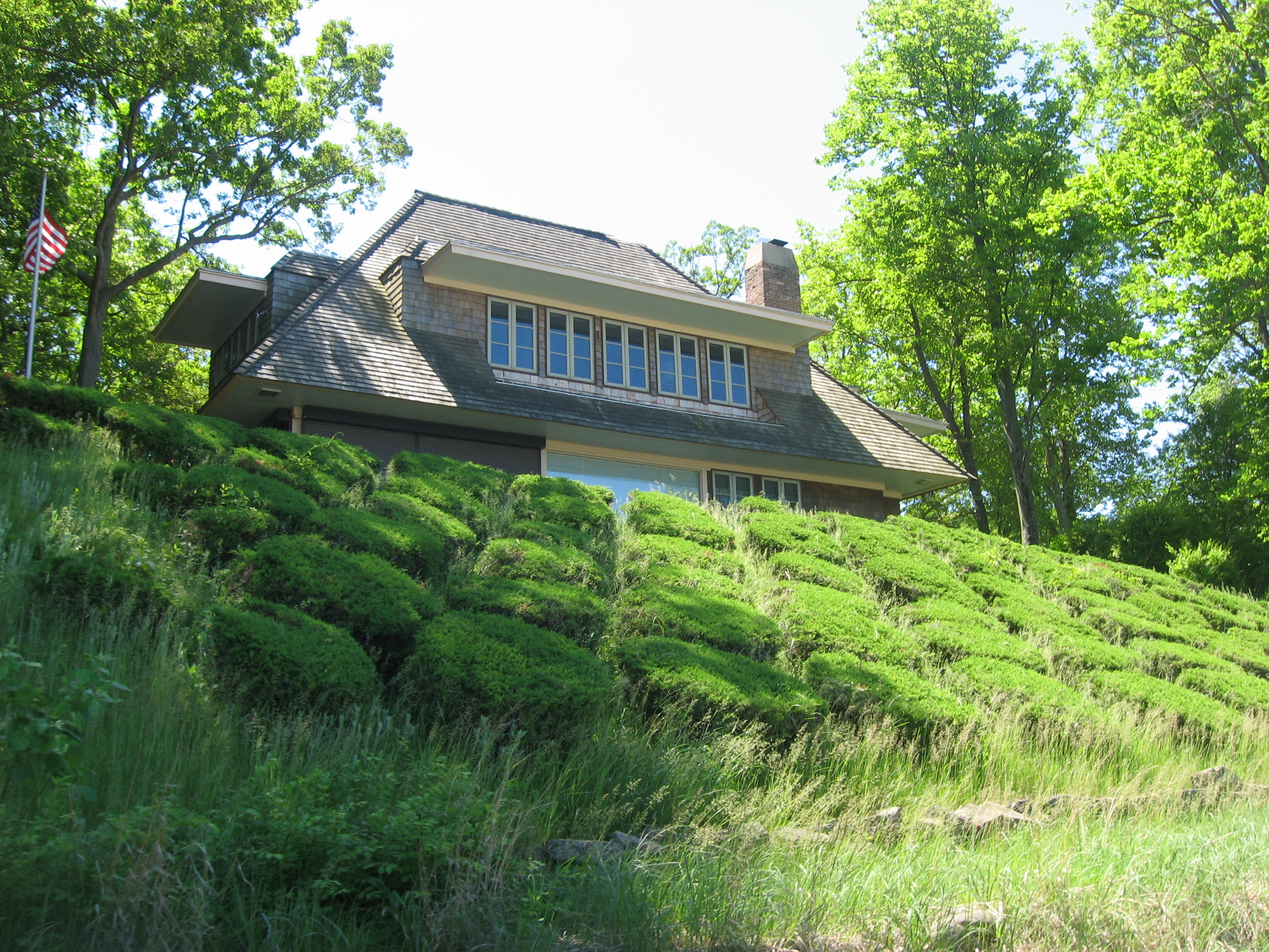 Looking up toward the George and Adele Jaworowski House, located at 3501 Lakeshore Drive in Duneland Beach, Indiana, United States. Built in 1946 according to a design by John Lloyd Wright, it is listed on the National Register of Historic Places.